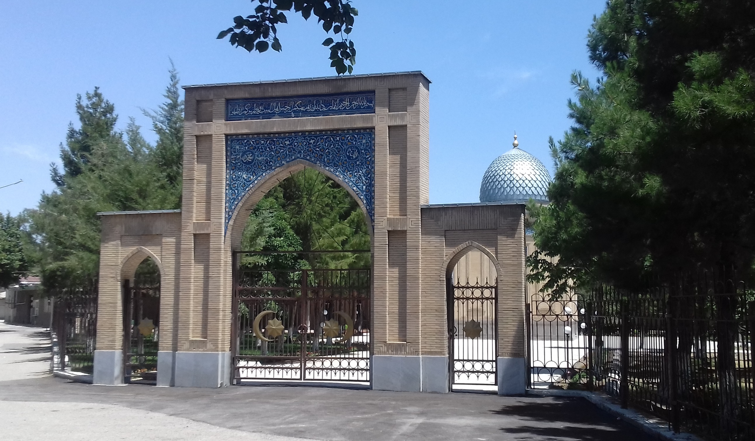 Arch at the entrance to the courtyard of the Murad Avliya Mausoleum in Samarkand (Uzbekistan)